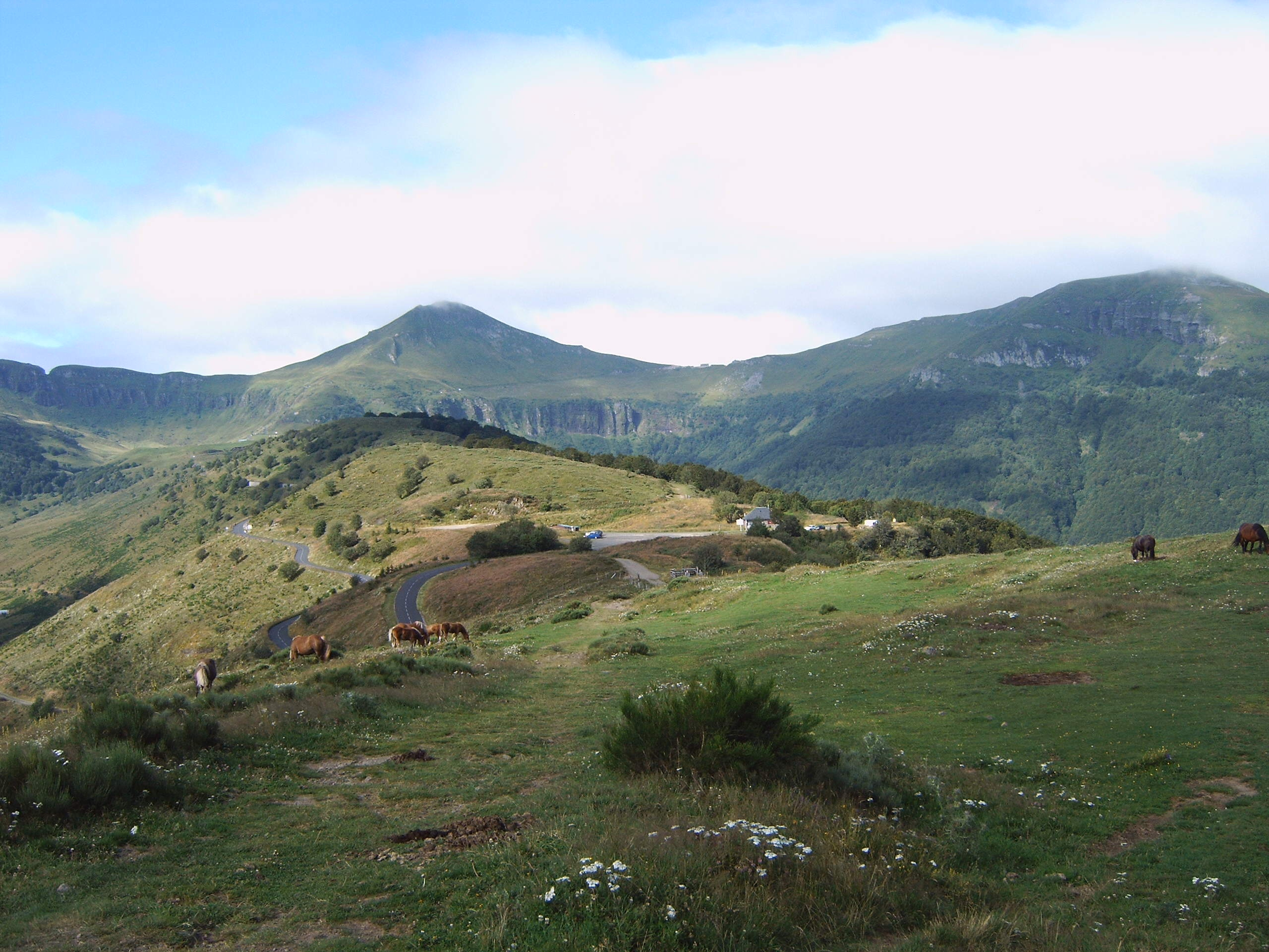 View on Puy Mary (on the left) from just east of the Col de Serre, Puy de la Tourte on the right, Cantal, France